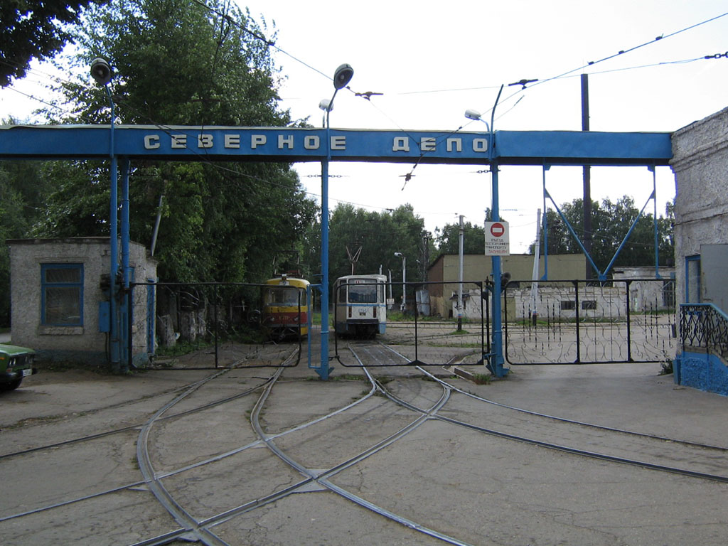 Ulyanovsk North tram depot